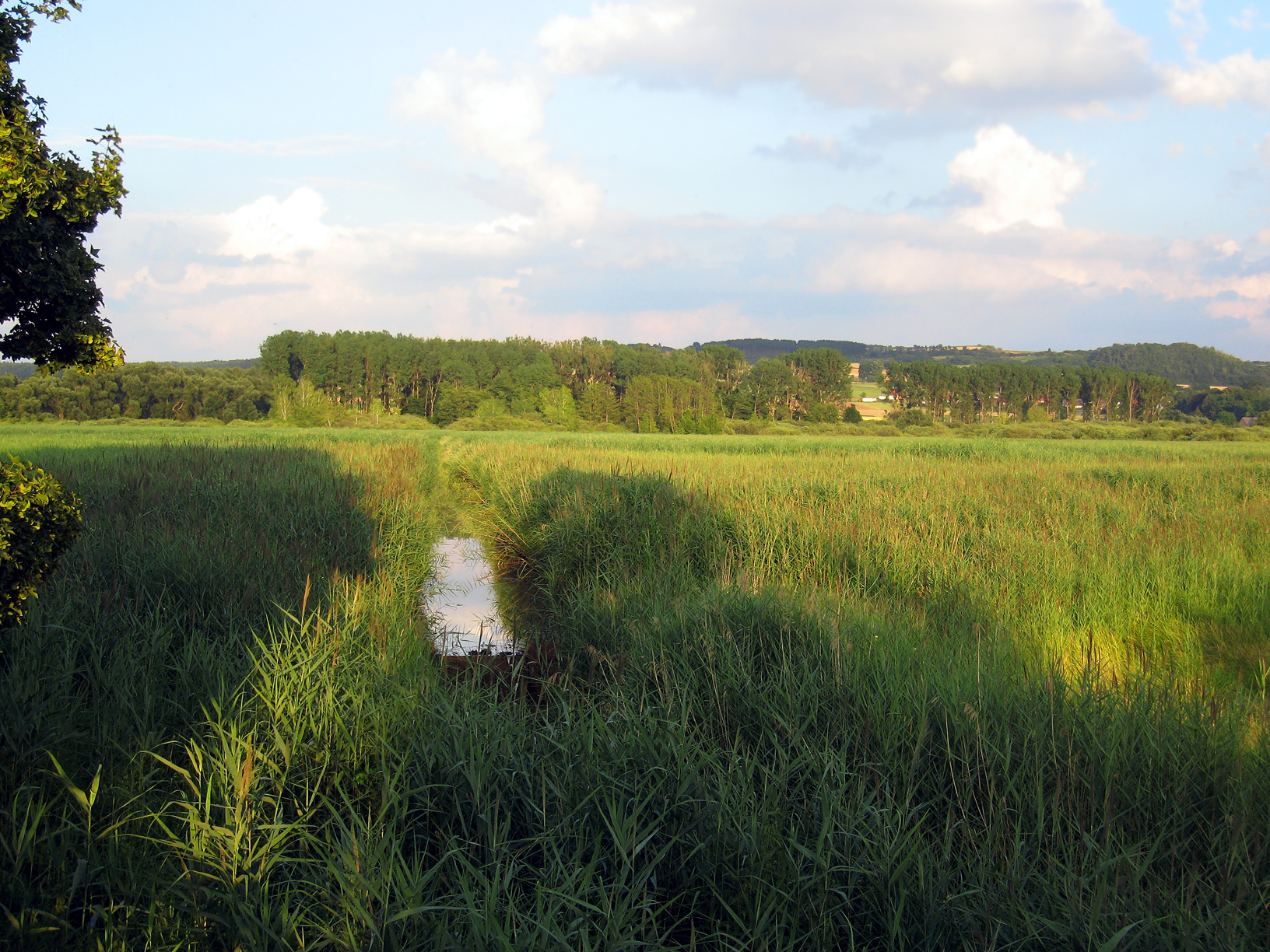 The bog of Schweinsberg, a village east of Marburg (Hesse, Germany)